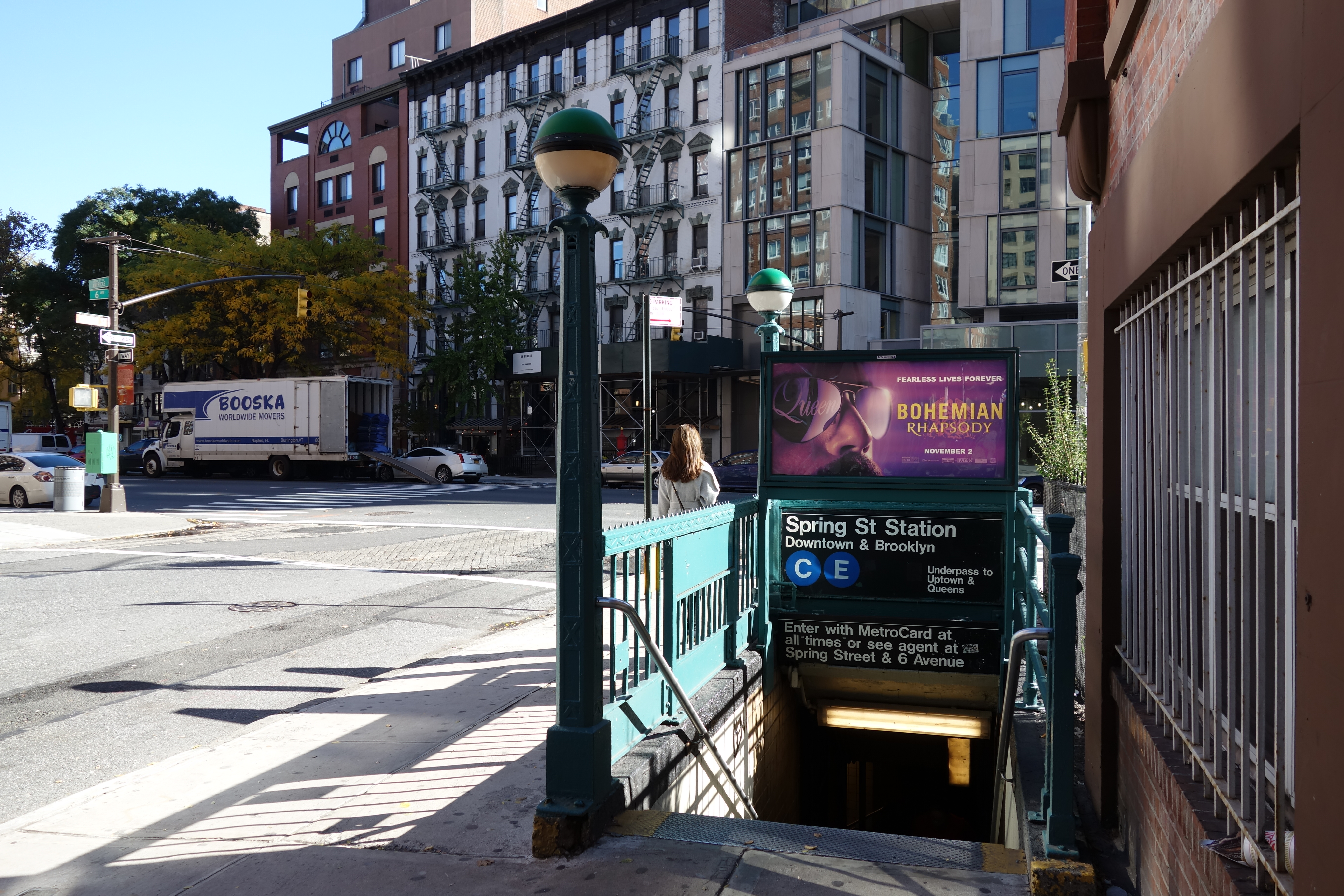 An entrance to the Downtown side of the Spring Street IND station, at the southwest corner of 6th Avenue and Vandam Street in SoHo / Hudson Square, Manhattan.